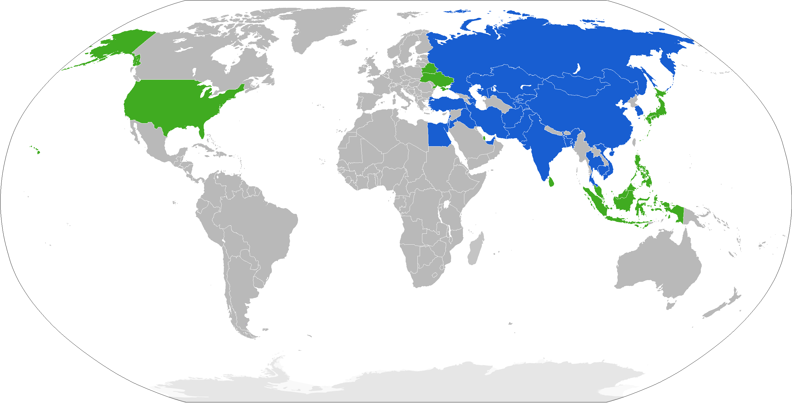 Member states of Conference on Interaction and Confidence-Building Measures in Asia. Member States Observer States